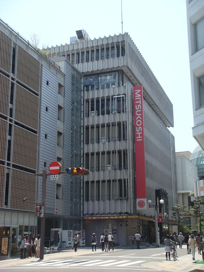 departmentstore Takamatsu-mitsukoshi